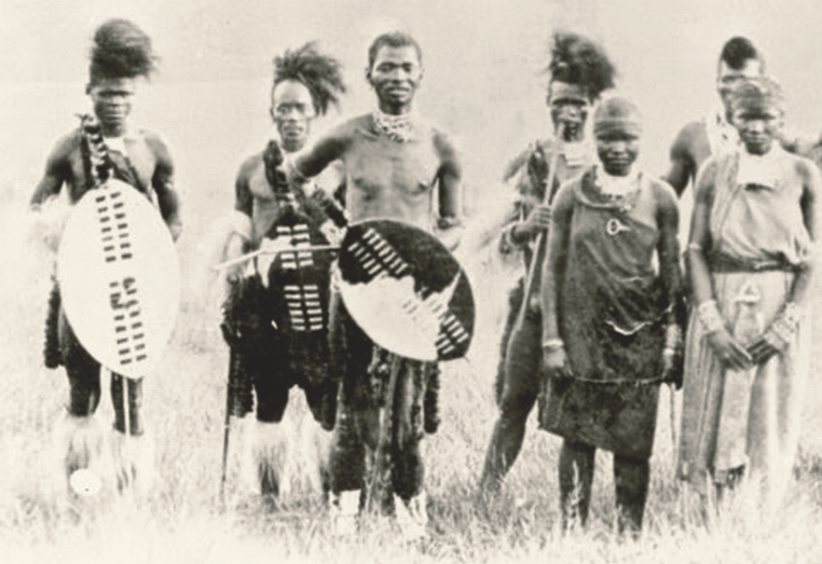 Chief Bhambatha and warriors, South Africa.